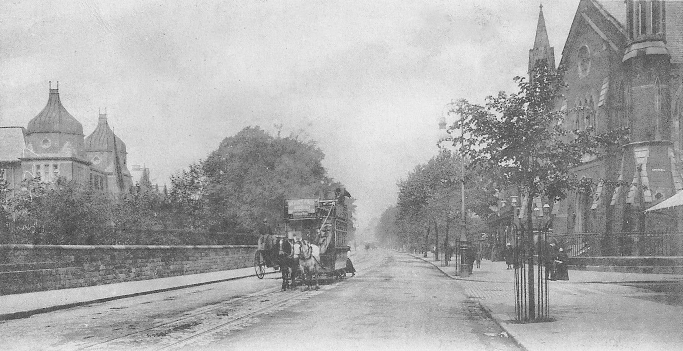 A Derby Tramways Company vehicle on London Road, Derby. Queen's Hall Methodist Mission on the right, Derby General Infirmary on the left